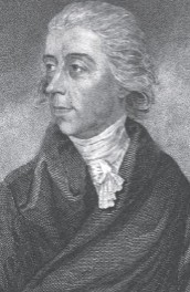 Portrait of Percival Stockdale (1736–1811), English poet, writer and abolitionist.